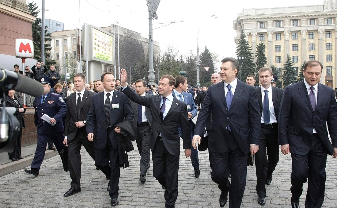 With Ukrainian President Viktor Yanukovich